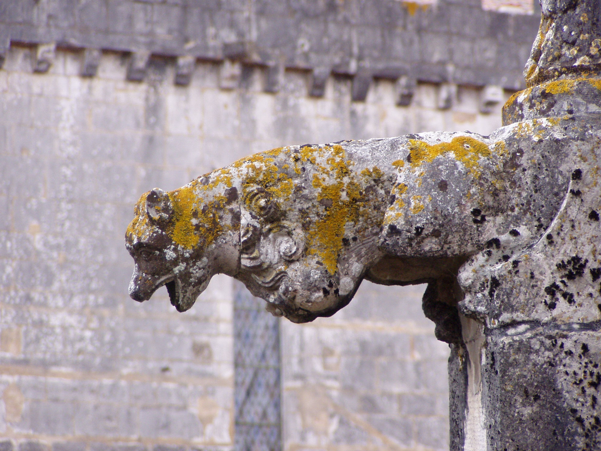 Gargoyle on the Monastery of Alcobaça, Portugal.